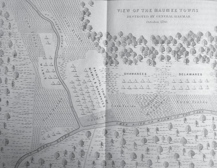 Map of Kekionga, before its destruction, drawn by Ebenezer Denny